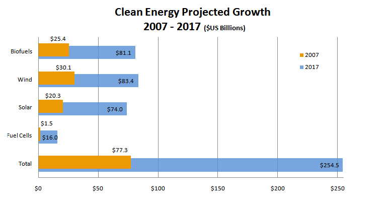 Clean energy projected growth 2007-2017. Based on Clean Edge (2008) Energy Trends Report.